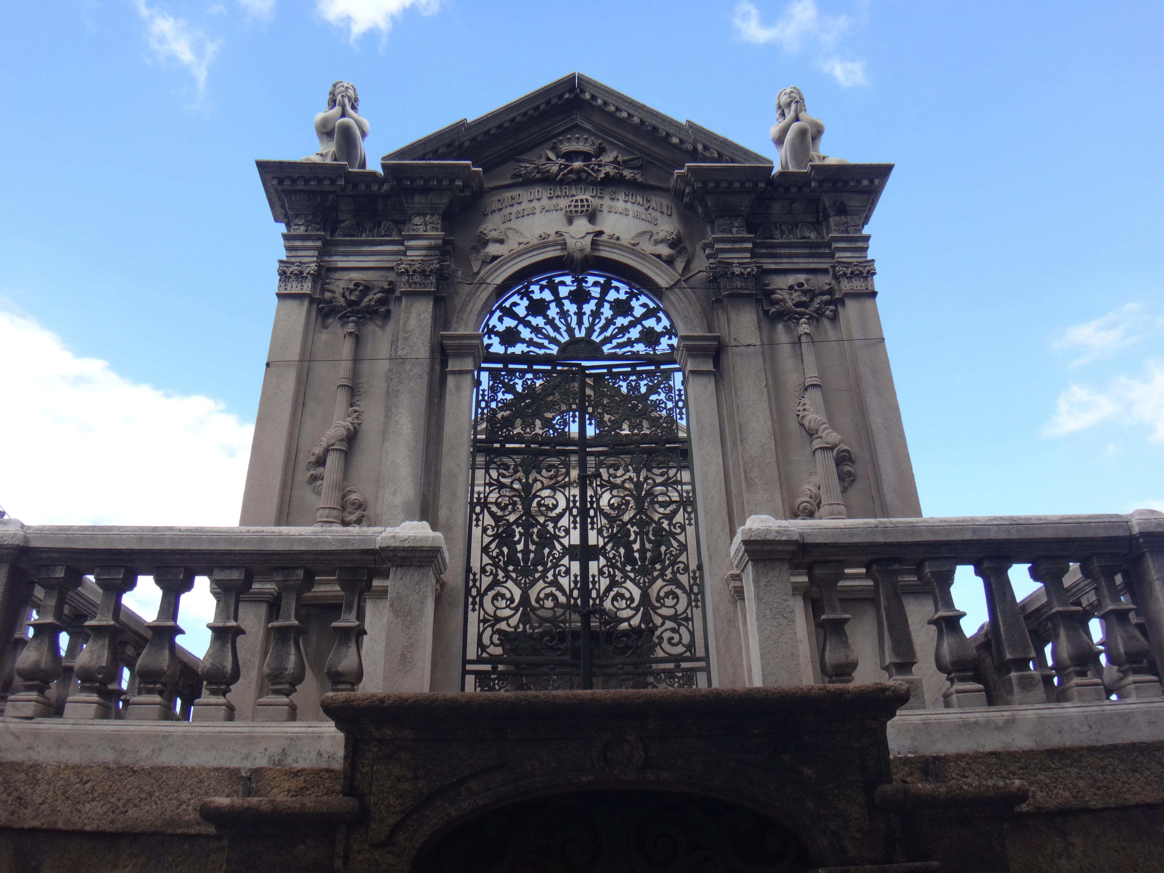 Mausoleum of the Baron of São Gonçalo in the Carmo Cemetery, Rio de Janeiro, Brazil.